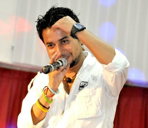 Picture Sugam Pokharel